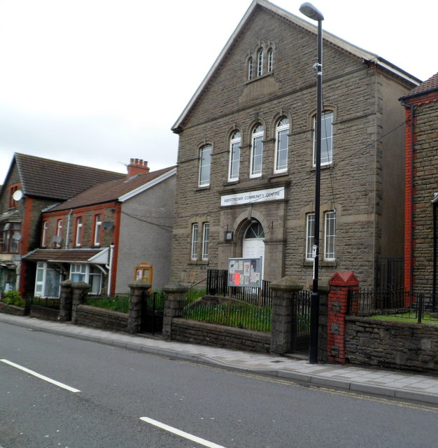 Abertridwr Community Centre. Located on the north side of Thomas Street, in the former Nazareth Welsh Calvinistic Methodist chapel, built in 1904.